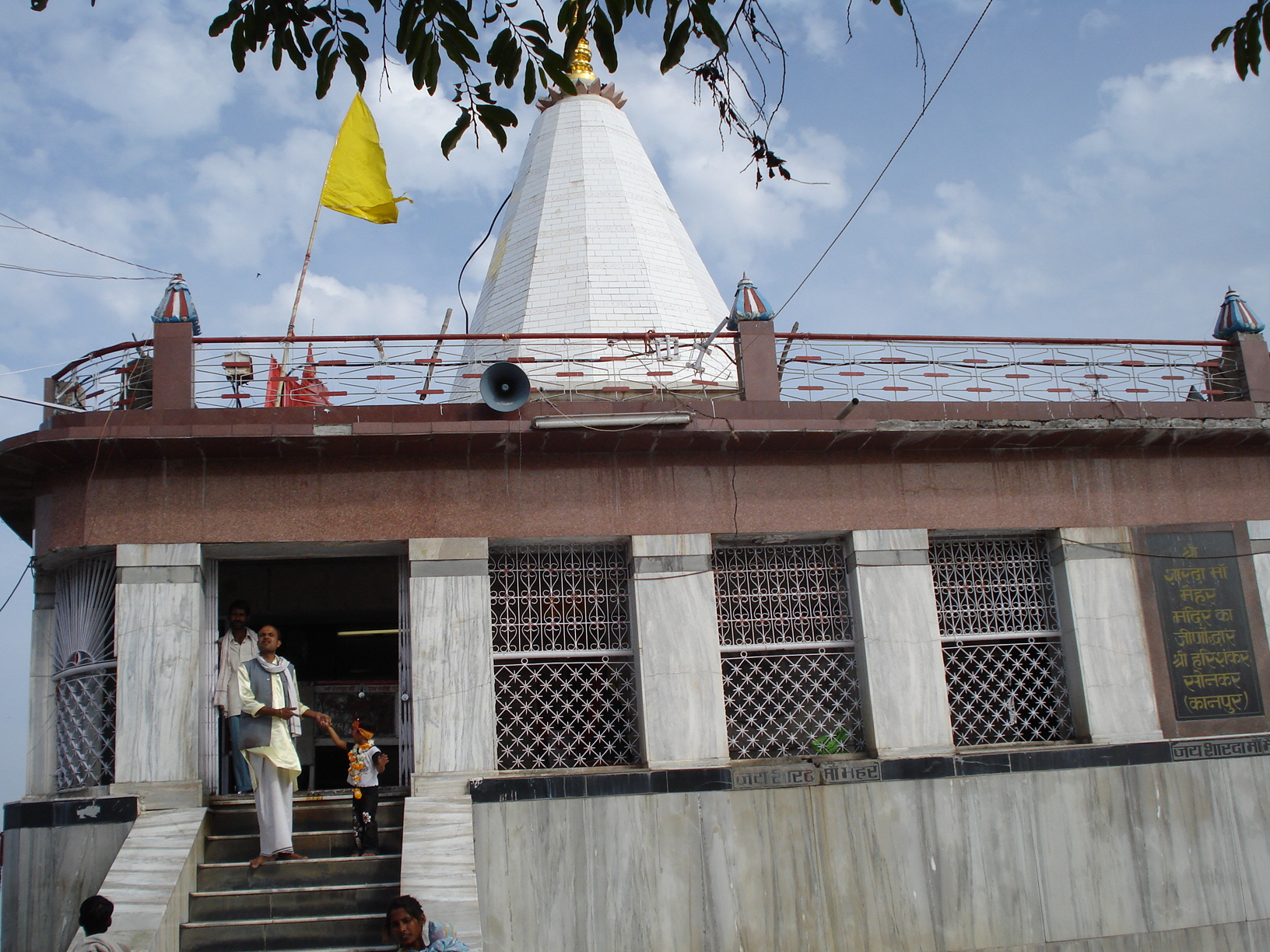 Sharda Temple Maihar (Picture taken from back side)